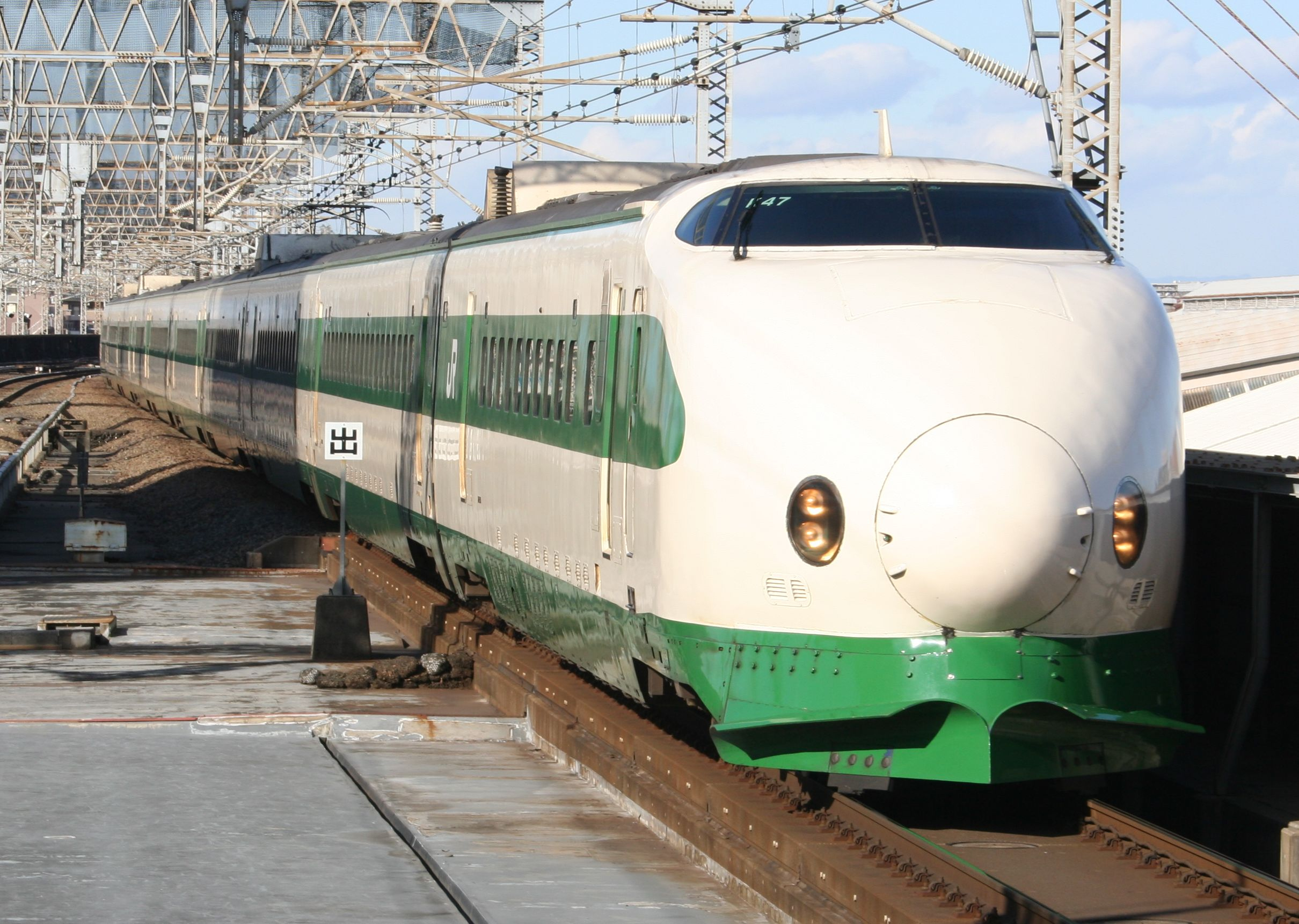 JR East 200 series shinkansen set K47 approaching Omiya Station on the Tanigawa 410 service to Tokyo